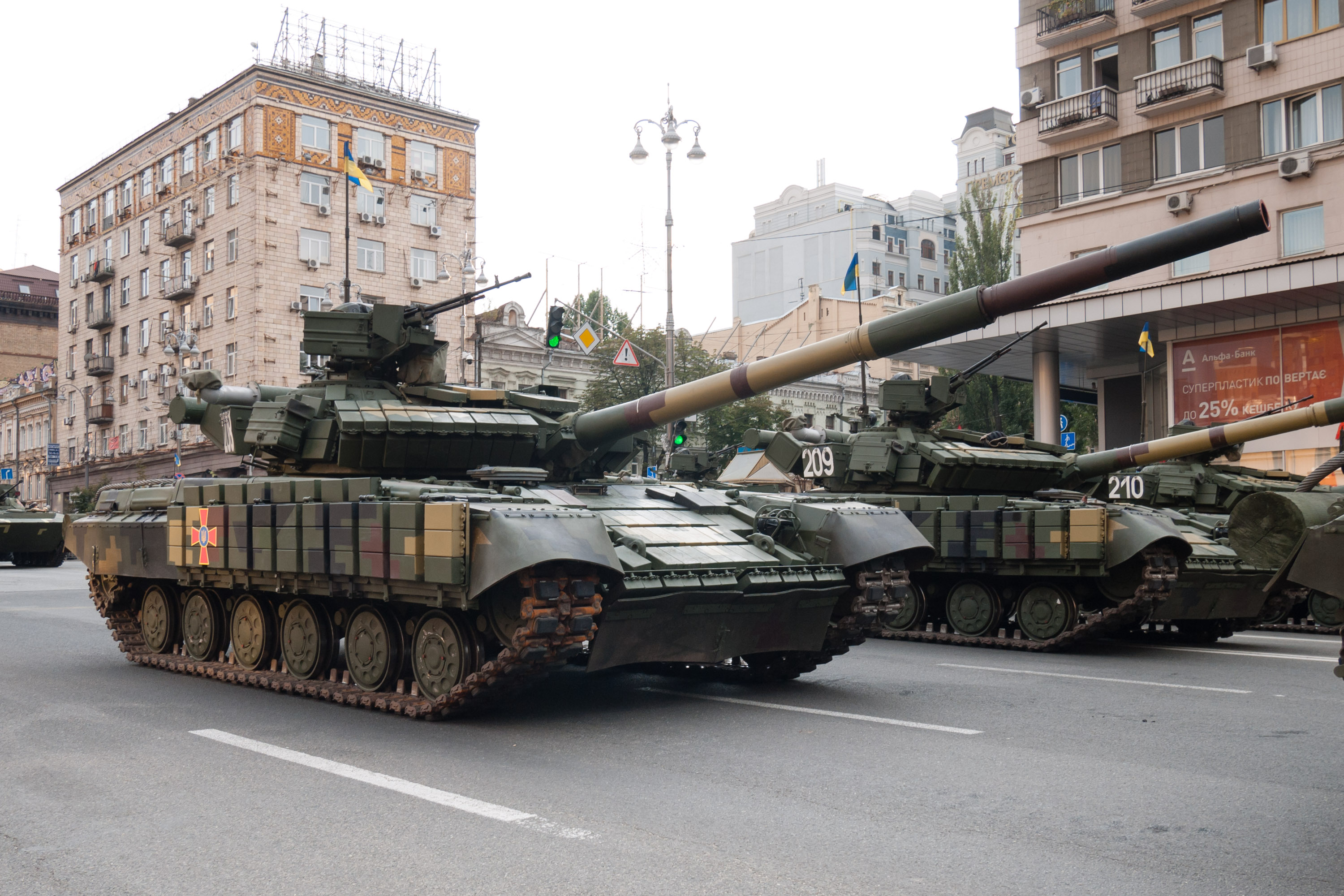 T-64BV ver. 2017 main battle tank, rehearsal for the Independence Day military parade in Kyiv, 2018